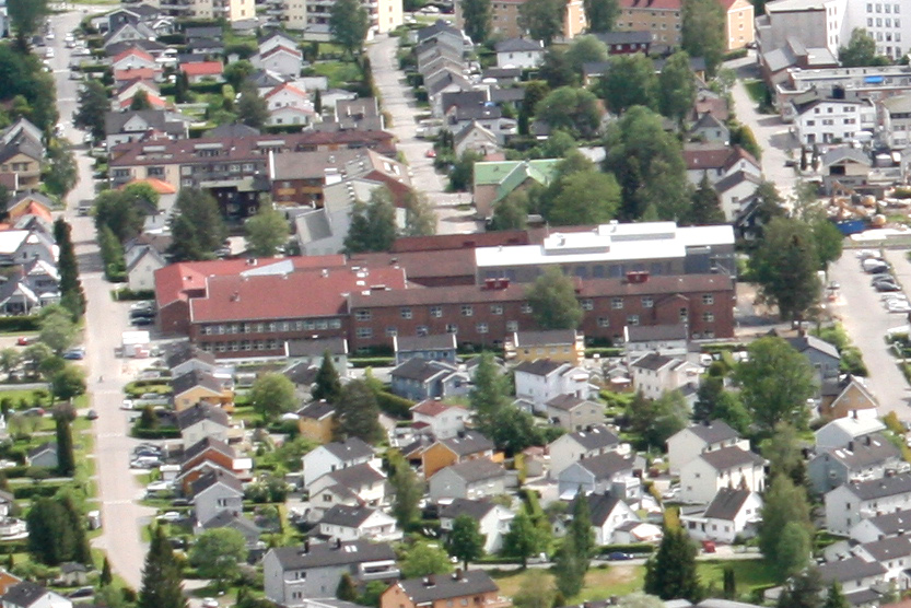 Aerial photograph from June 14th, 2015. Part of city of Lillestrøm (Norway) with river Nitelva in the foreground.)